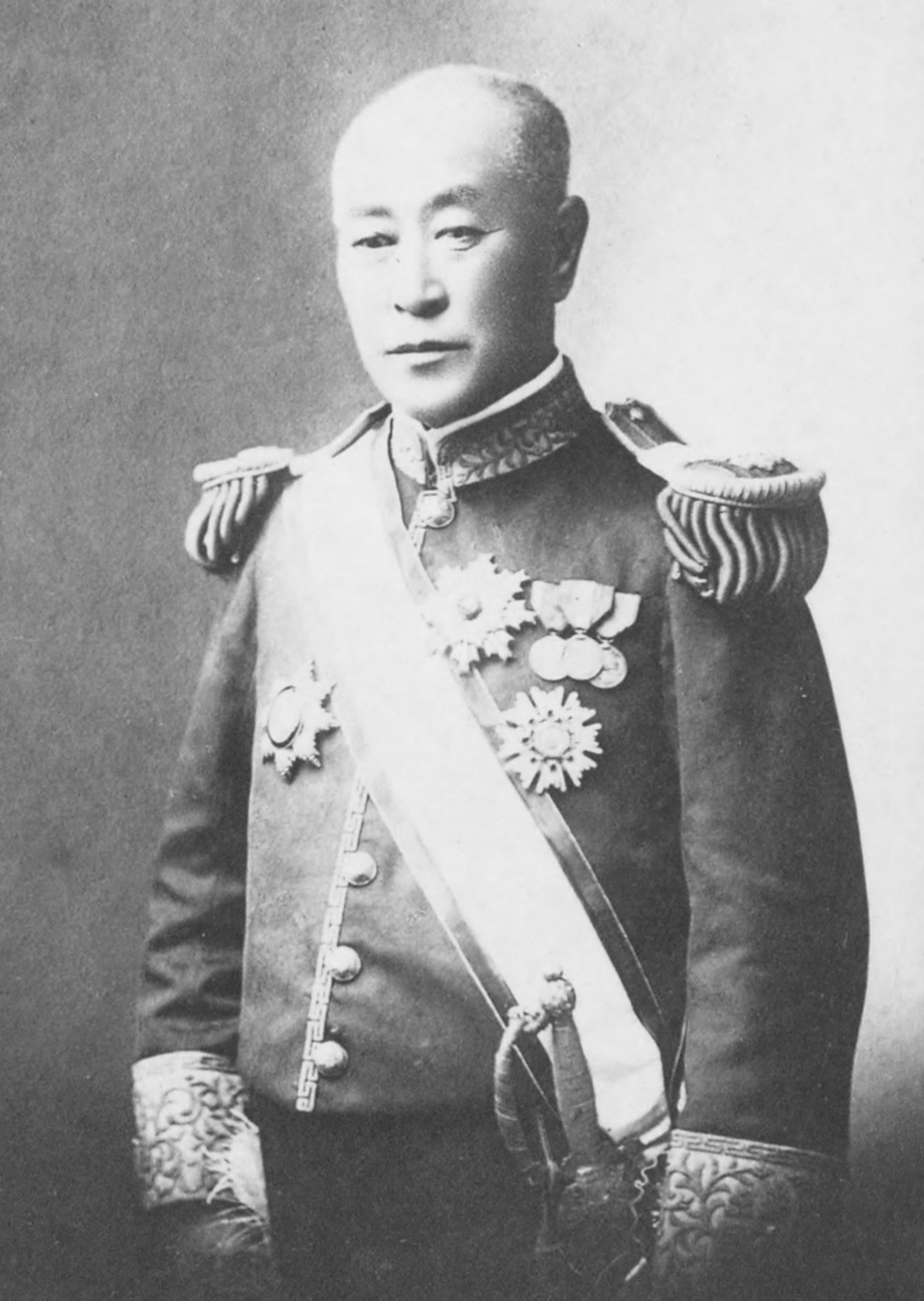 Inoue Masaru, "father of Japanese railroads"